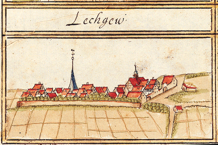 View of Löchgau from the forest register books created by Andreas Kieser